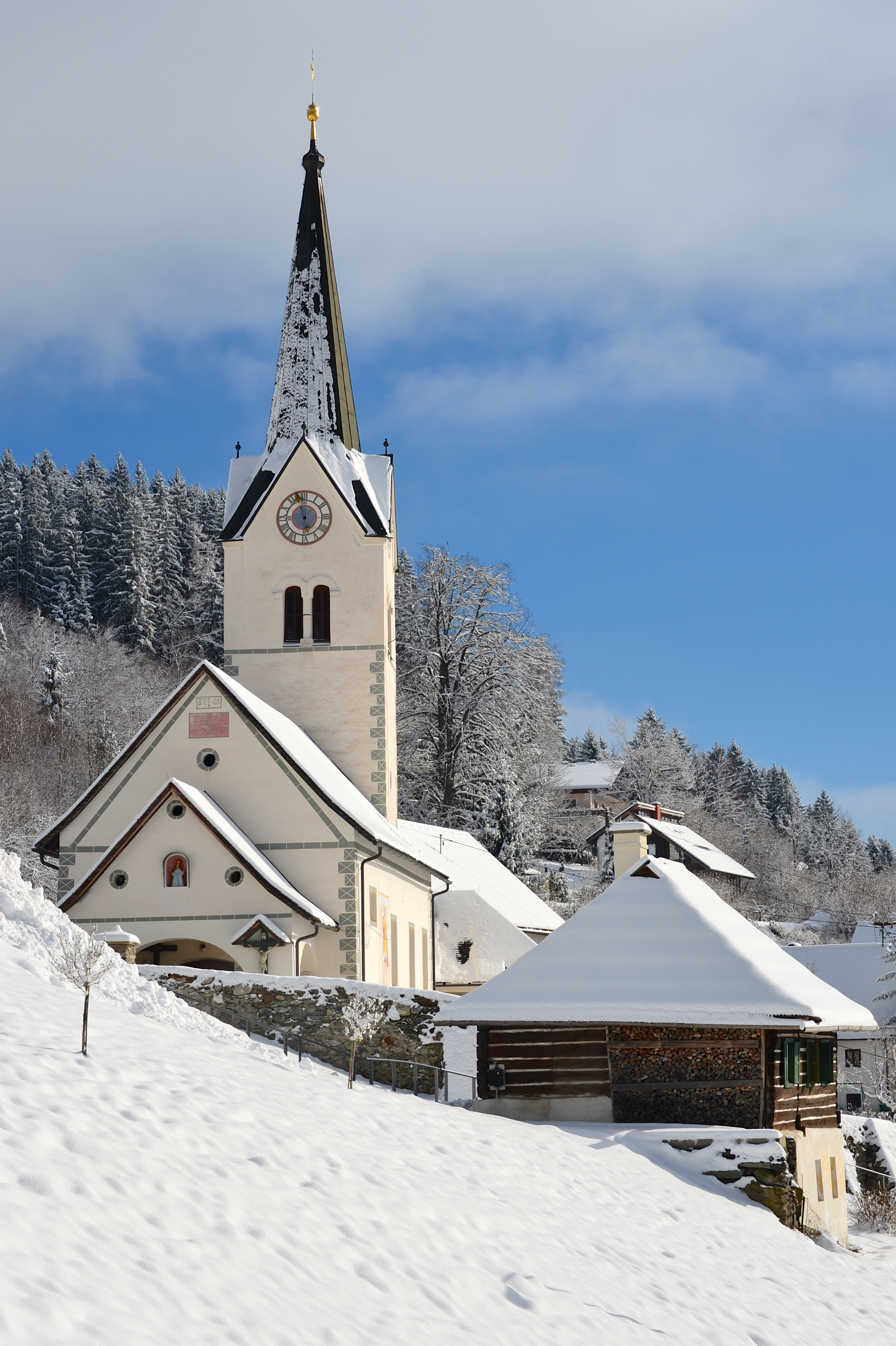 Sacristan house and parish church Saint Martin in Sankt Martin, municipality Techelsberg, district Klagenfurt Land, Carinthia, Austria, EU